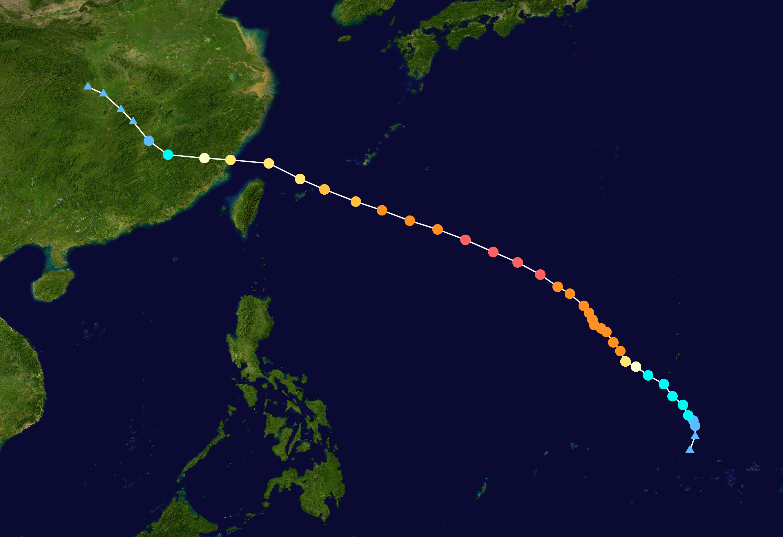 Track map of Typhoon Maria of the 2018 Pacific typhoon season. The points show the location of the storm at 6-hour intervals. The colour represents the storm's maximum sustained wind speeds as classified in the Saffir–Simpson scale (see below), and the shape of the data points represent the nature of the storm, according to the legend below. Saffir–Simpson scale Tropical depression≤38 mph≤62 km/h Category 3111–129 mph178–208 km/h Tropical storm39–73 mph63–118 km/h Category 4130–156 mph209–251 km/h Category 174–95 mph119–153 km/h Category 5≥157 mph≥252 km/h Category 296–110 mph154–177 km/h Unknown Storm type Tropical cyclone Subtropical cyclone Extratropical cyclone / Remnant low / Tropical disturbance / Monsoon depression